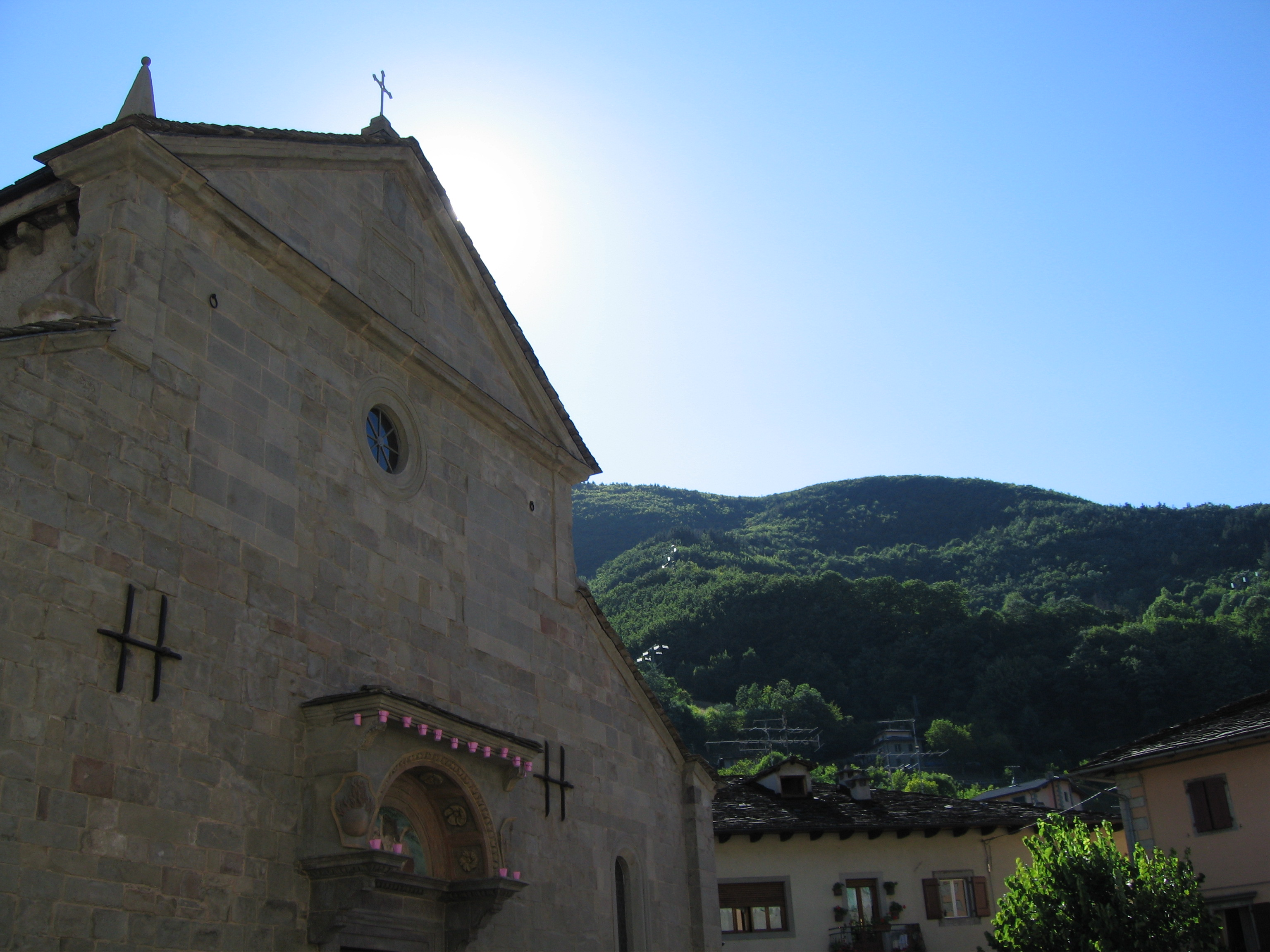 Fiumalbo's parish church